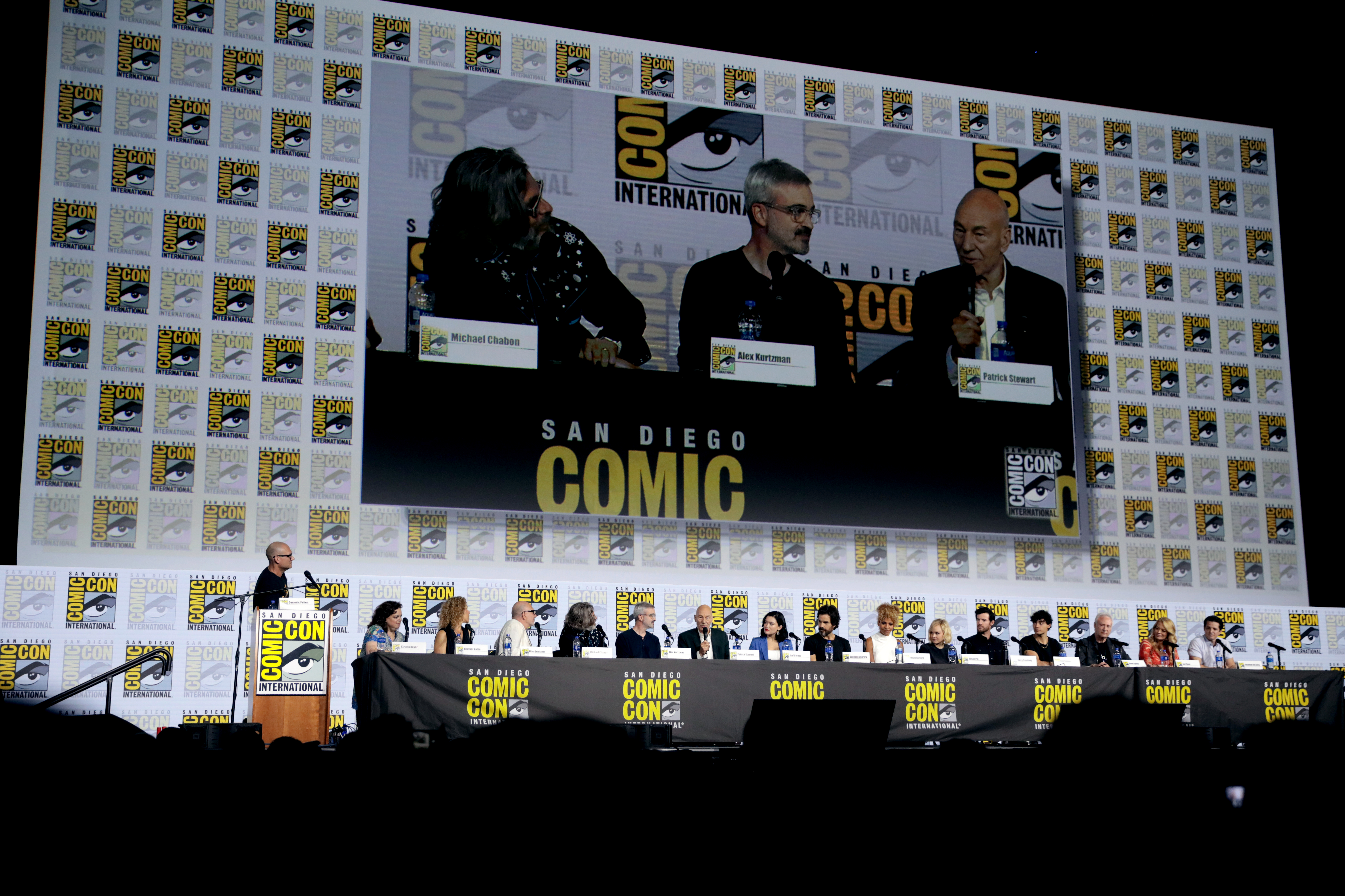 Dominic Patten, Kirsten Beyer, Heather Kadin, Akiva Goldsman, Michael Chabon, Alex Kurtzman, Patrick Stewart, Isa Briones, Santiago Cabrera, Michelle Hurd, Alison Pill, Harry Treadaway, Evan Evagora, Brent Spiner, Jeri Ryan and Jonathan Del Arco speaking at the 2019 San Diego Comic Con International, for "Star Trek: Picard", at the San Diego Convention Center in San Diego, California.